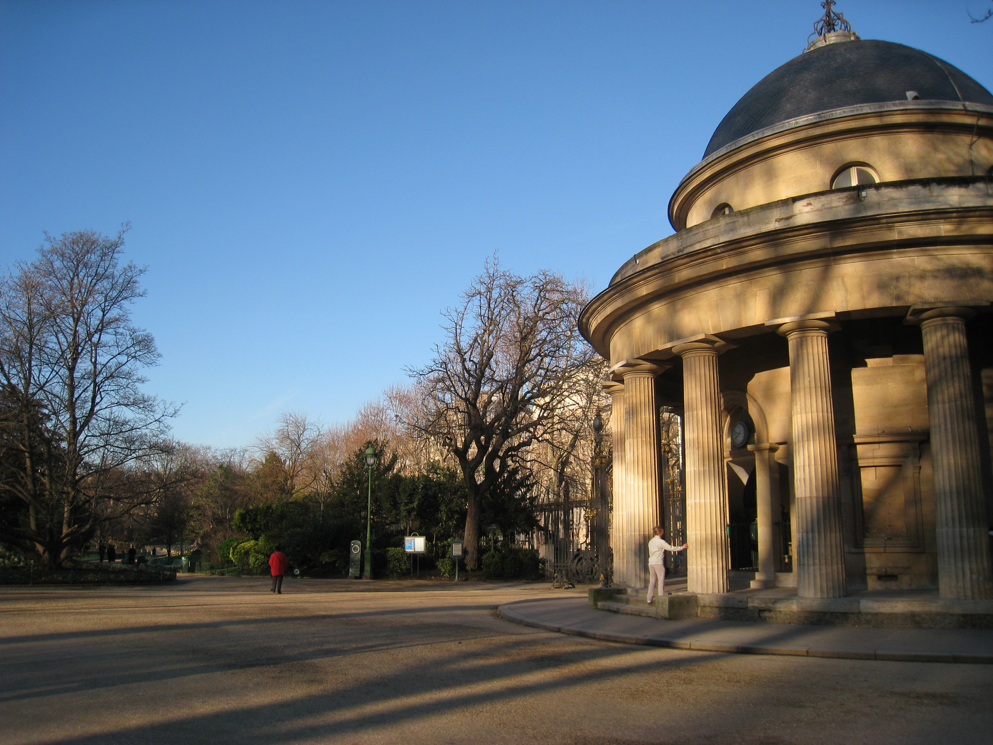 Parc Monceau, Paris, France - La Rotonde. The original work is old enough so that copyright (if any) has long since expired.